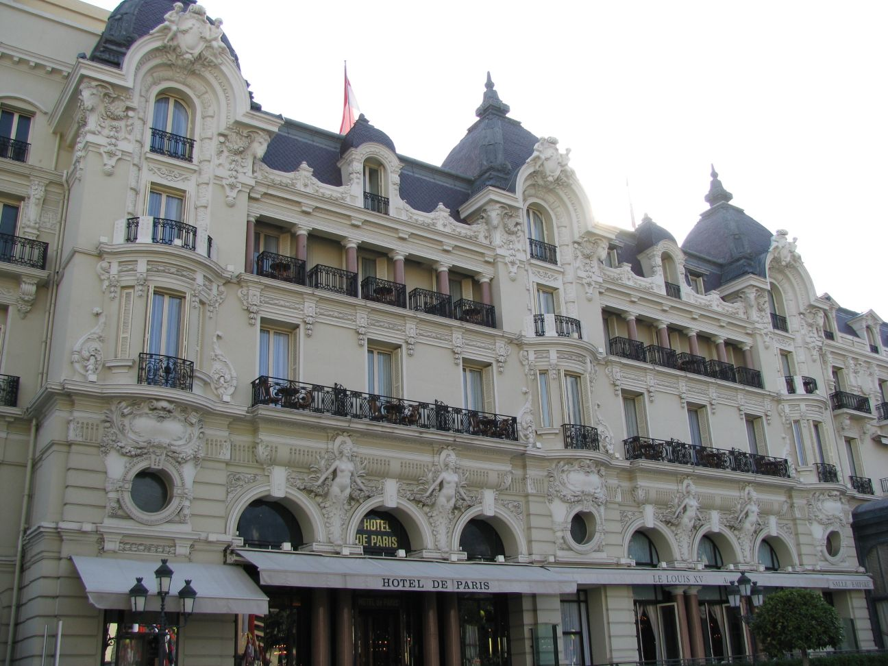 Hôtel de Paris (Monte-Carlo)